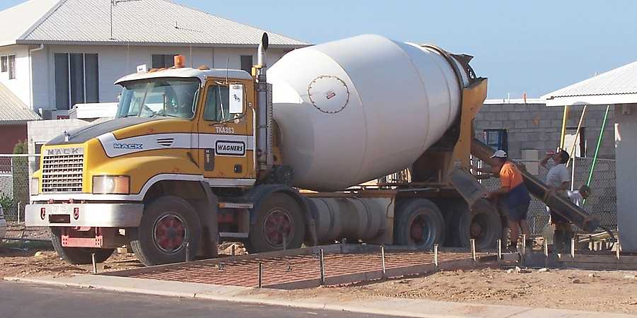 Transit mixer